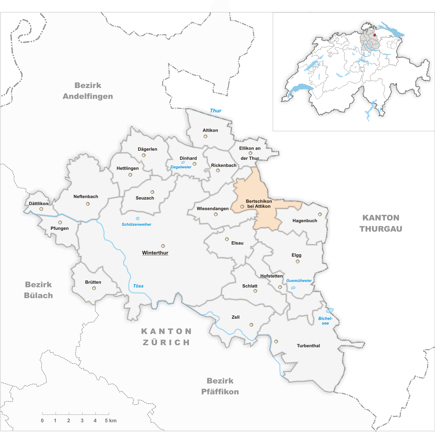 Municipality Bertschikon